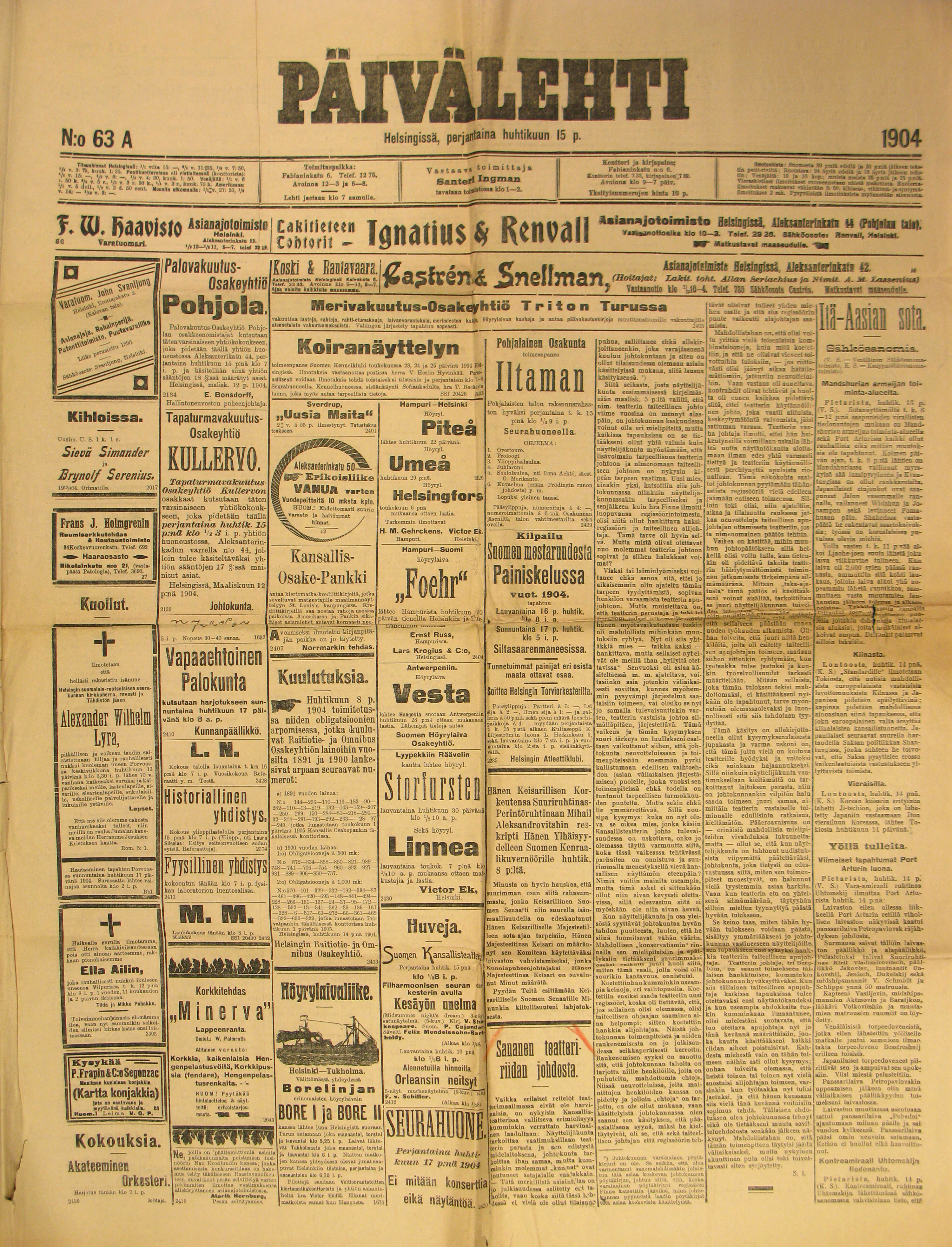 Päivälehti 15th of April 1904